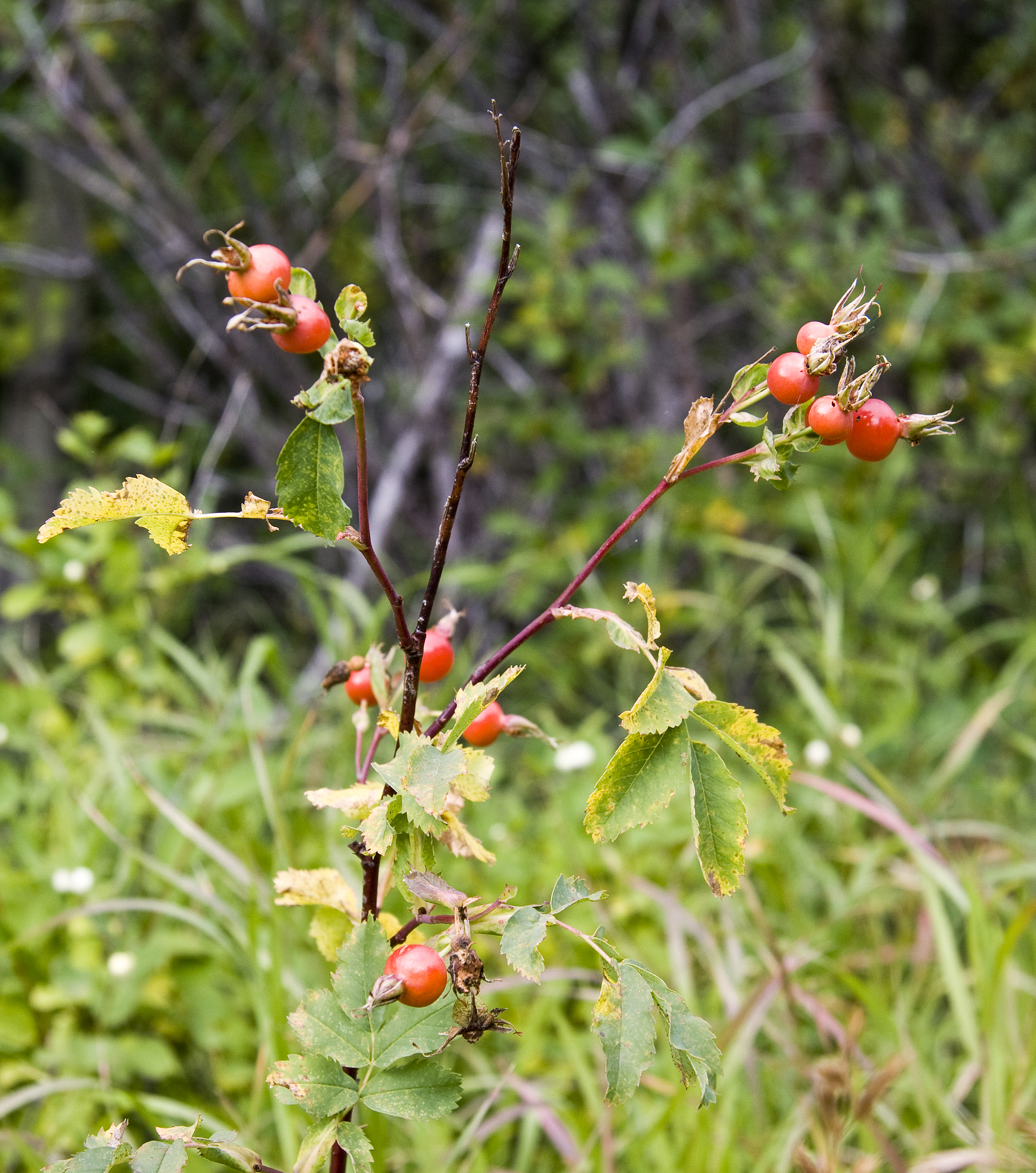 Glacier National Park, Montana, USA; Rosa woodsii is possible but unlikely since its range is west of Glacier County and it is found is dry prairie and open forest.